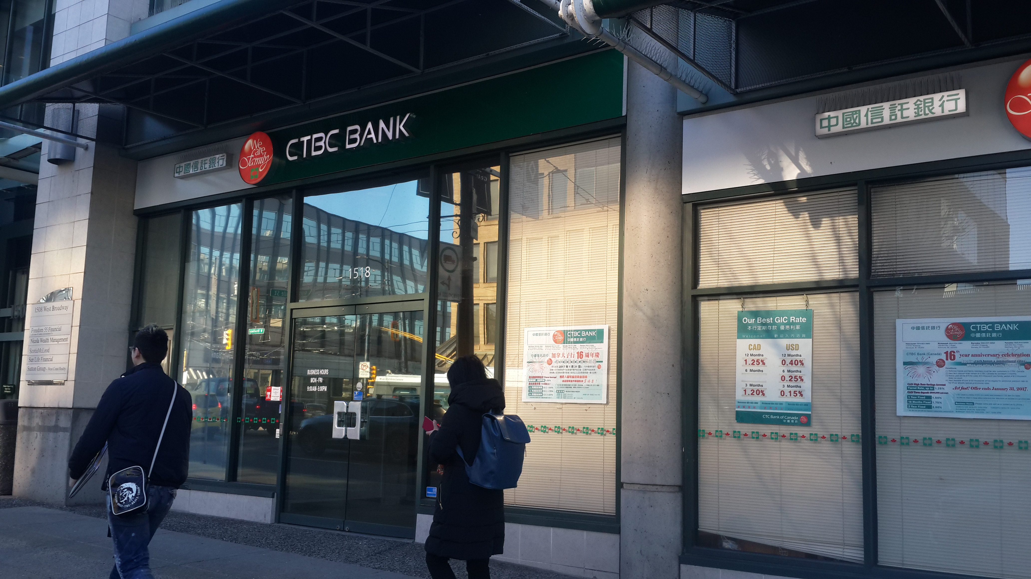 CTBC Bank at West Boardway, Vancouver, BC. 中文（中国大陆）: 位于温哥华西百老汇大街的中国信托银行西百老汇大街分行。